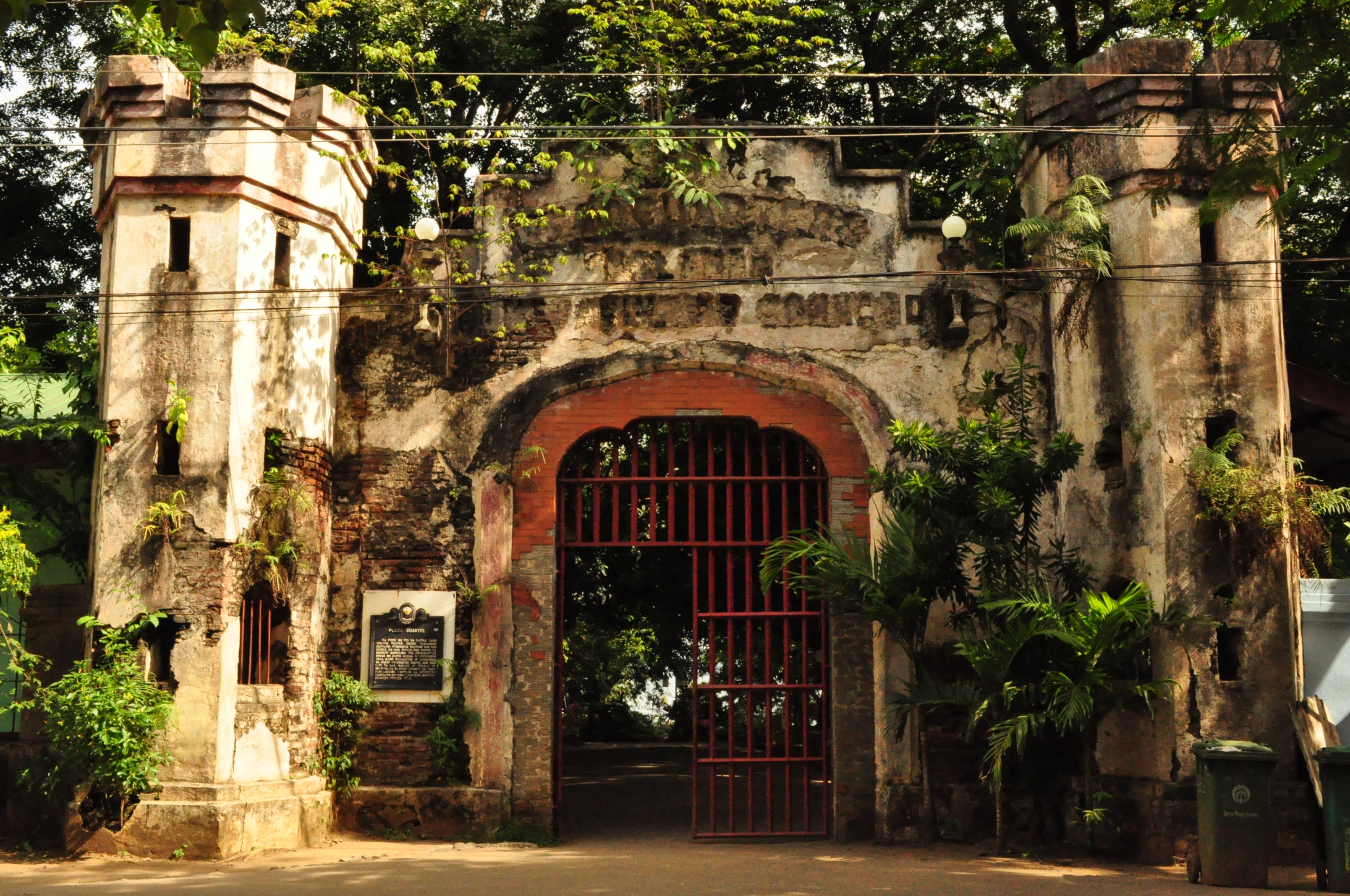 Portal of Plaza Cuartel, Puerto Princesa, Palawan